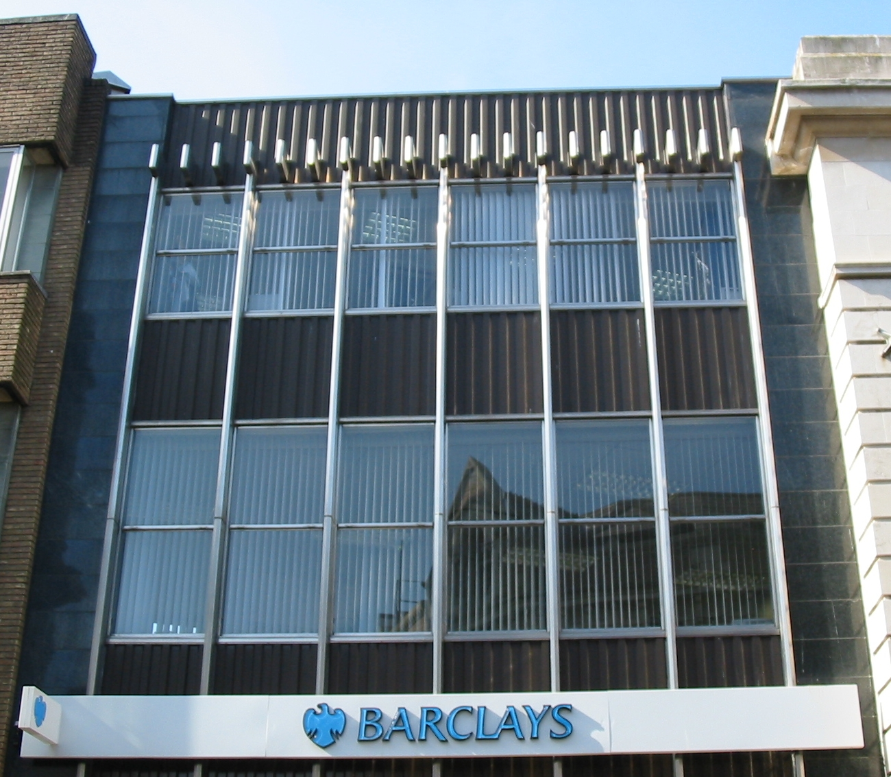 Jersey